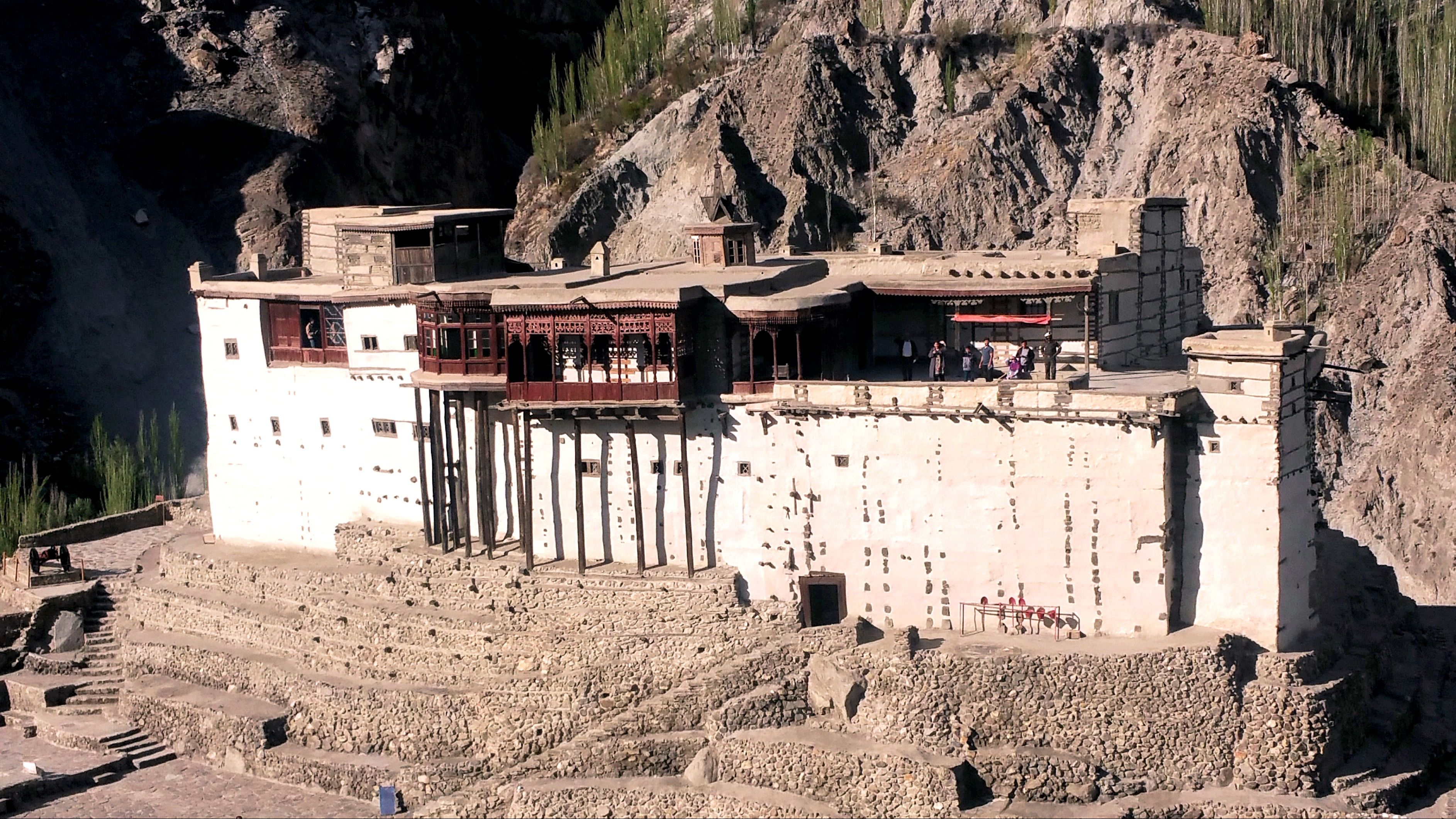 Baltit Fort This is a photo of a monument in Pakistan identified as the GB-15